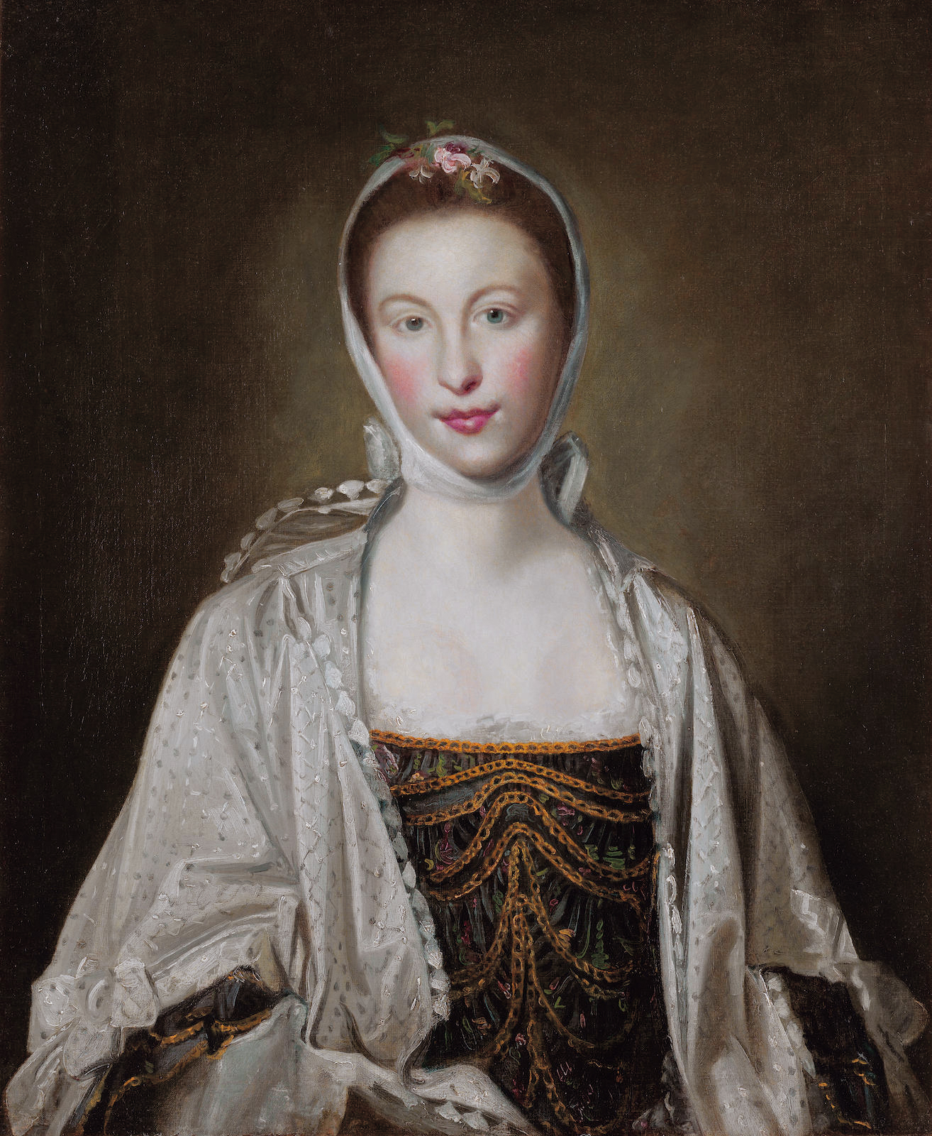 Lady Elizabeth Hastings (1731-1808), wife of John Rawdon, 1st Earl of Moira